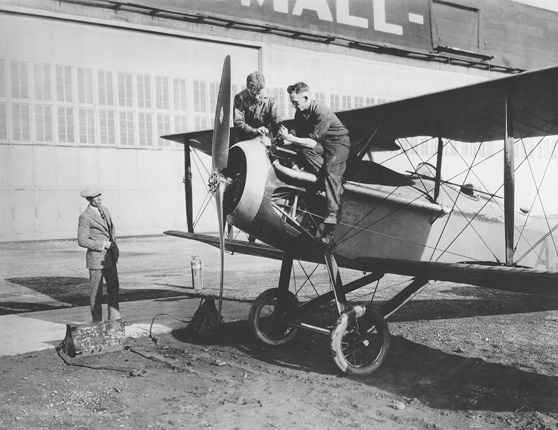 Mechanics working on a U.S. Army Air Corps Vought VE-7 in the 1920s.